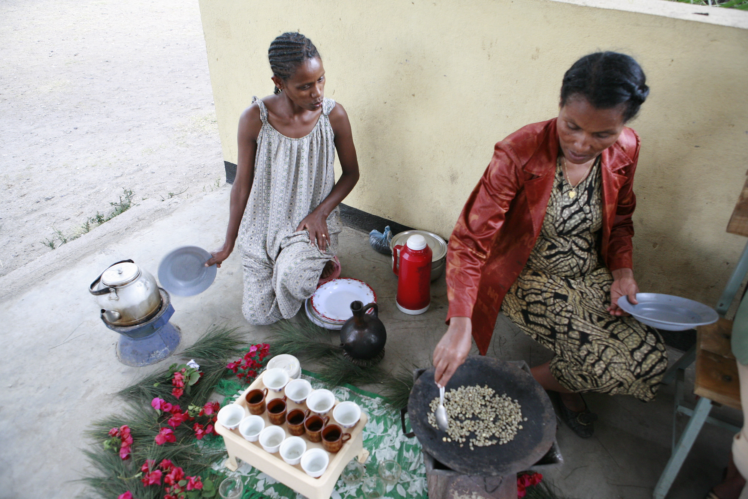 Roasting green/raw coffee beans ...